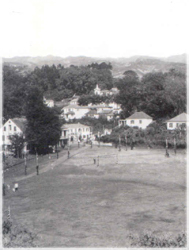 Largo da Achada in Camacha, Madeira Island, the first place where football was played in Portugal in 1875.